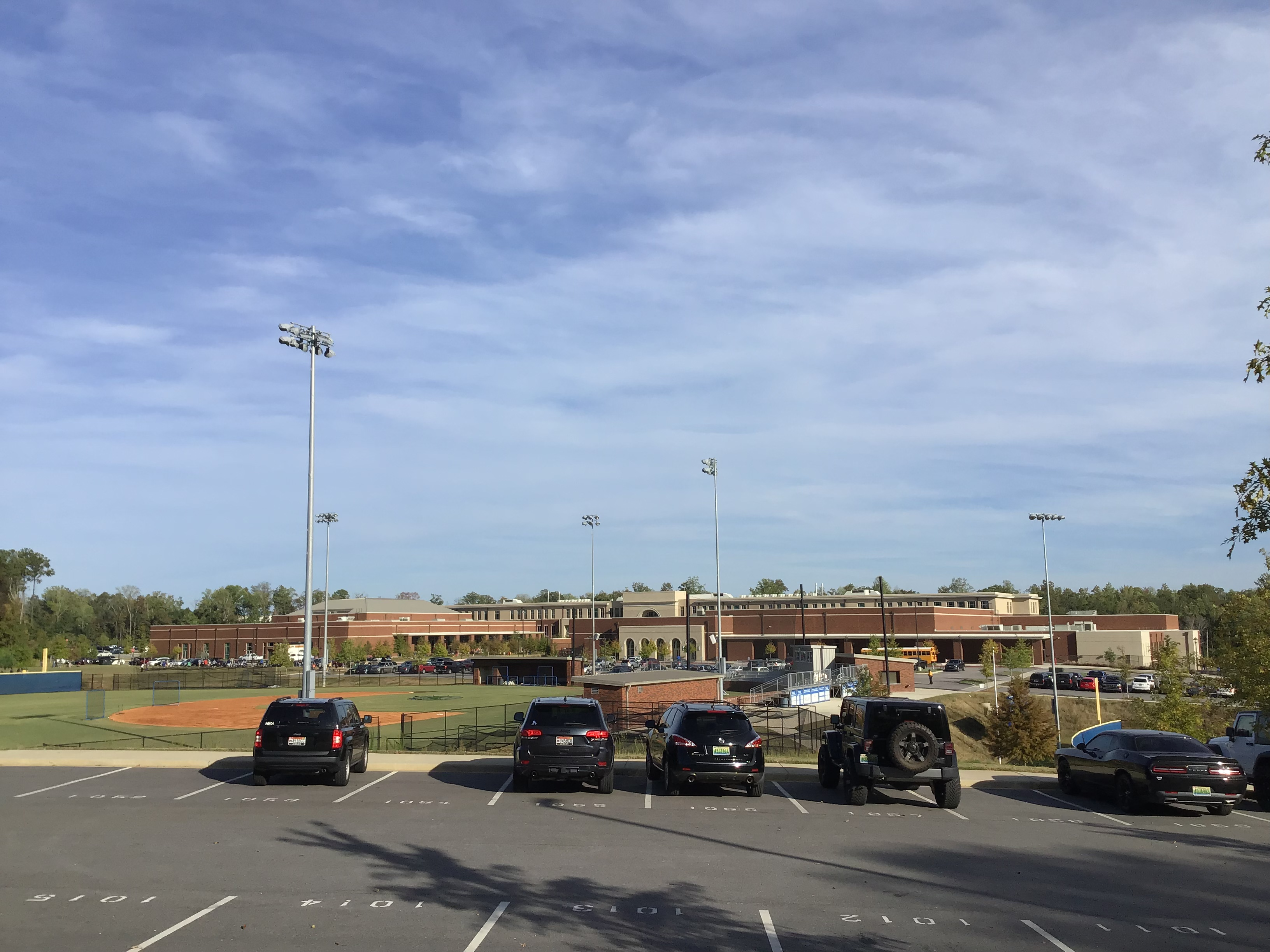 It is the image that shows the back side of Auburn High School, Auburn, AL